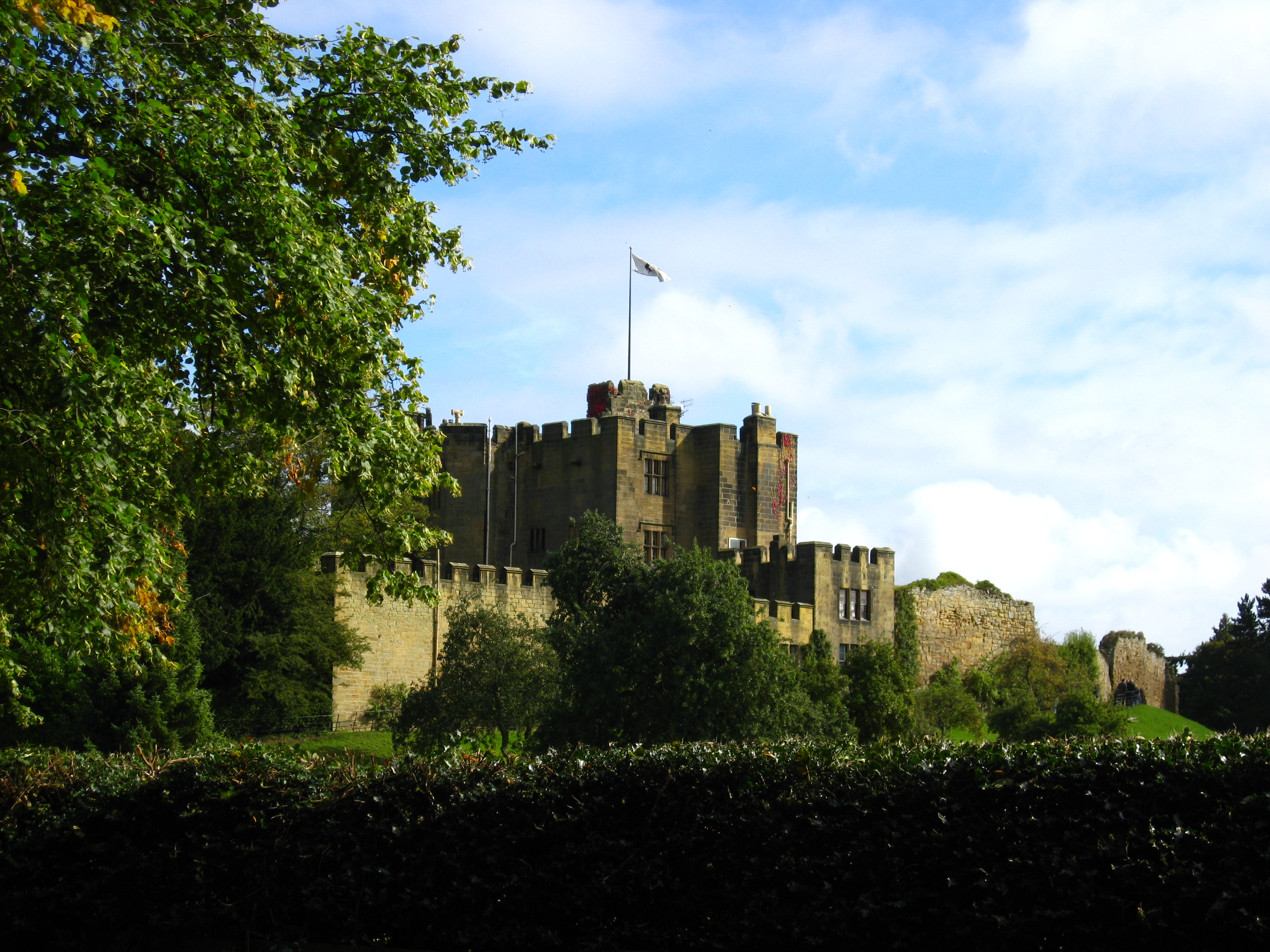 Bothal Castle summer